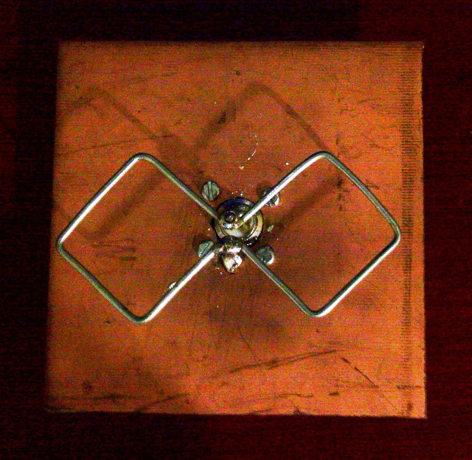 BiQuad feeder for Parabolic Dish as per How-To: Build a WiFi biquad dish antenna but with Aluminium Wires and double sided PCB board.